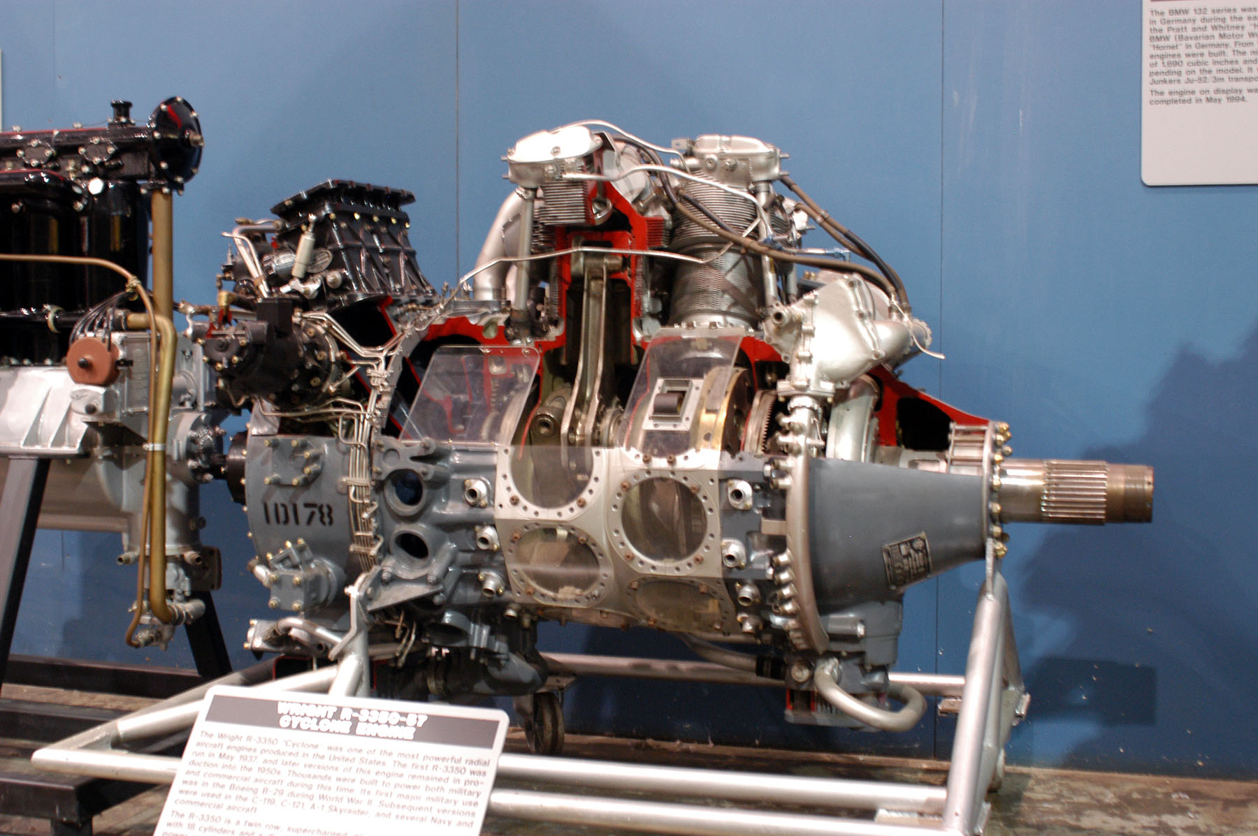 Wright R-3350 Cyclone Radial Engine